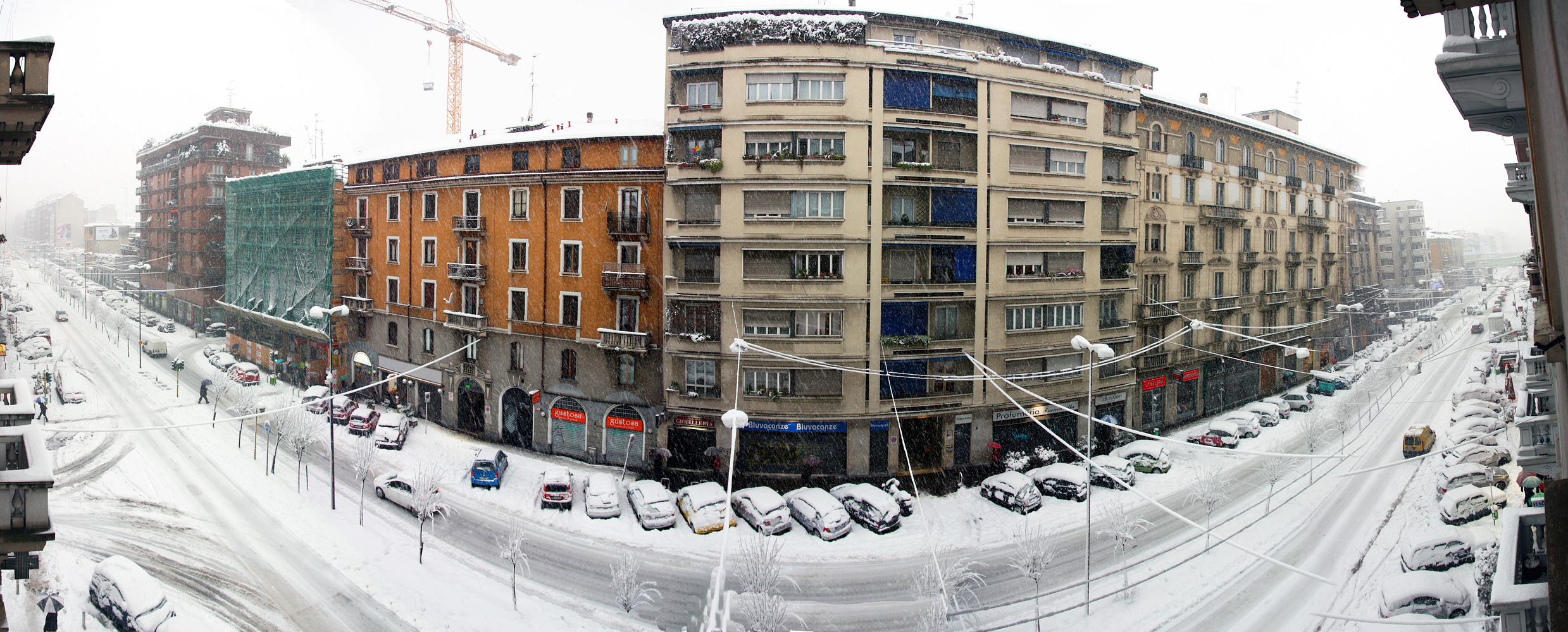 Viale Monza, Milano, under the snow